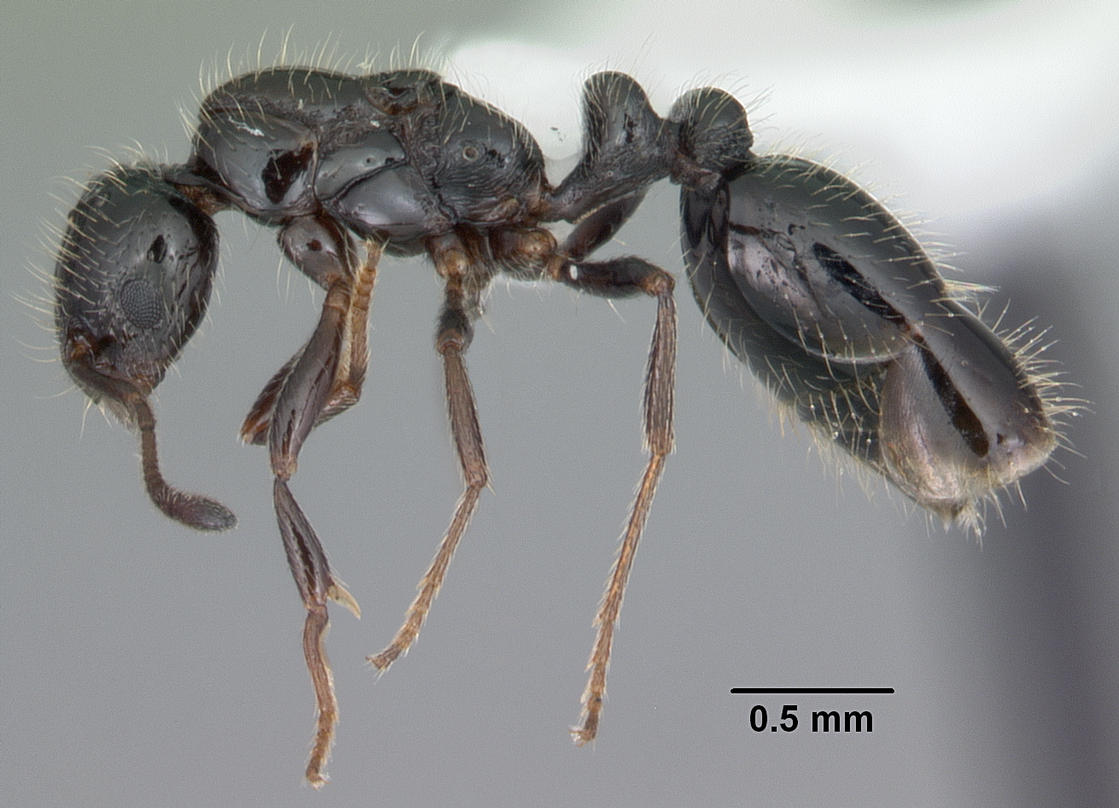 Profile view of ant Monomorium trageri specimen casent0104100.